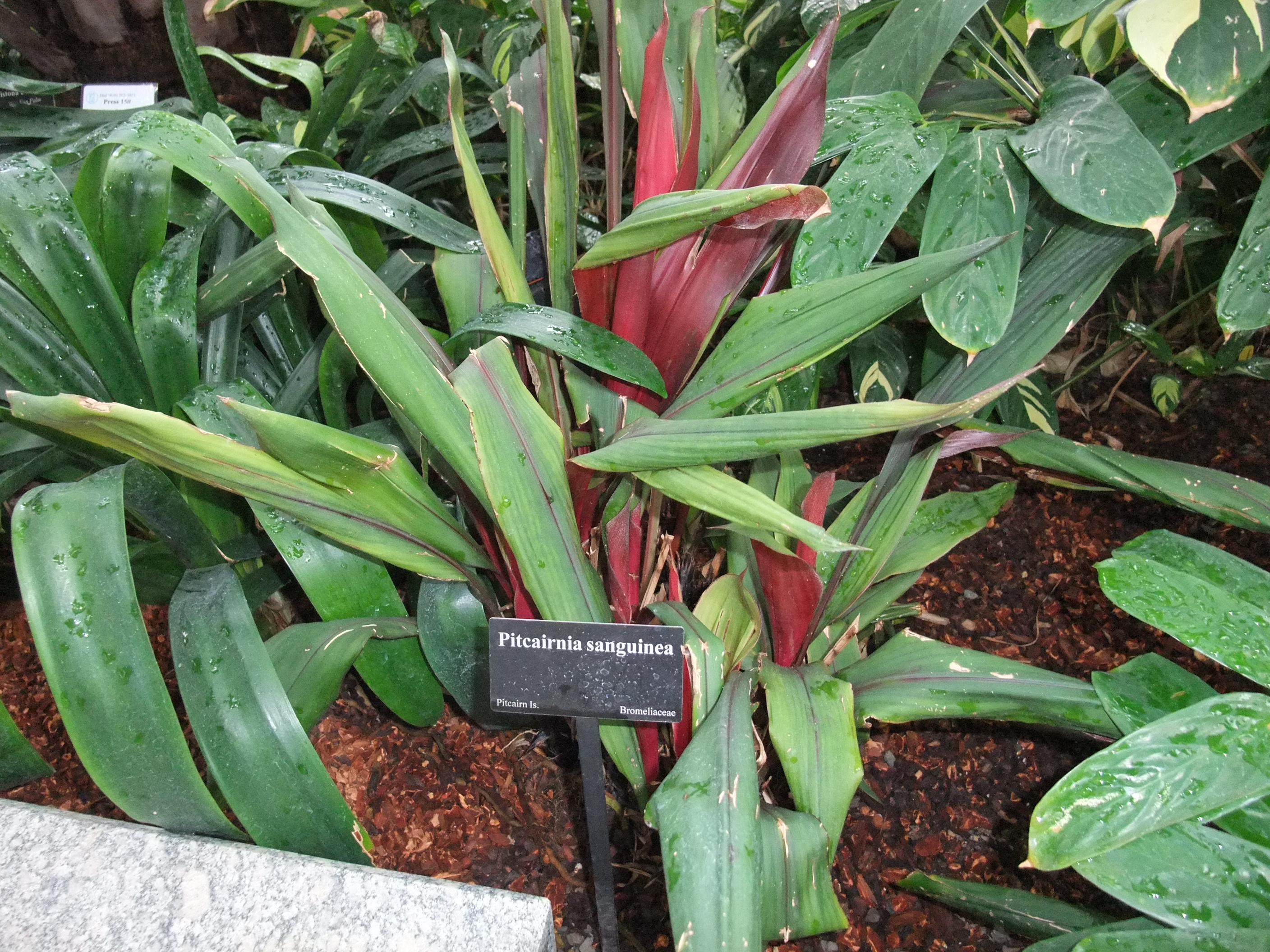 A photograph of Pitcairnia sanguinea.